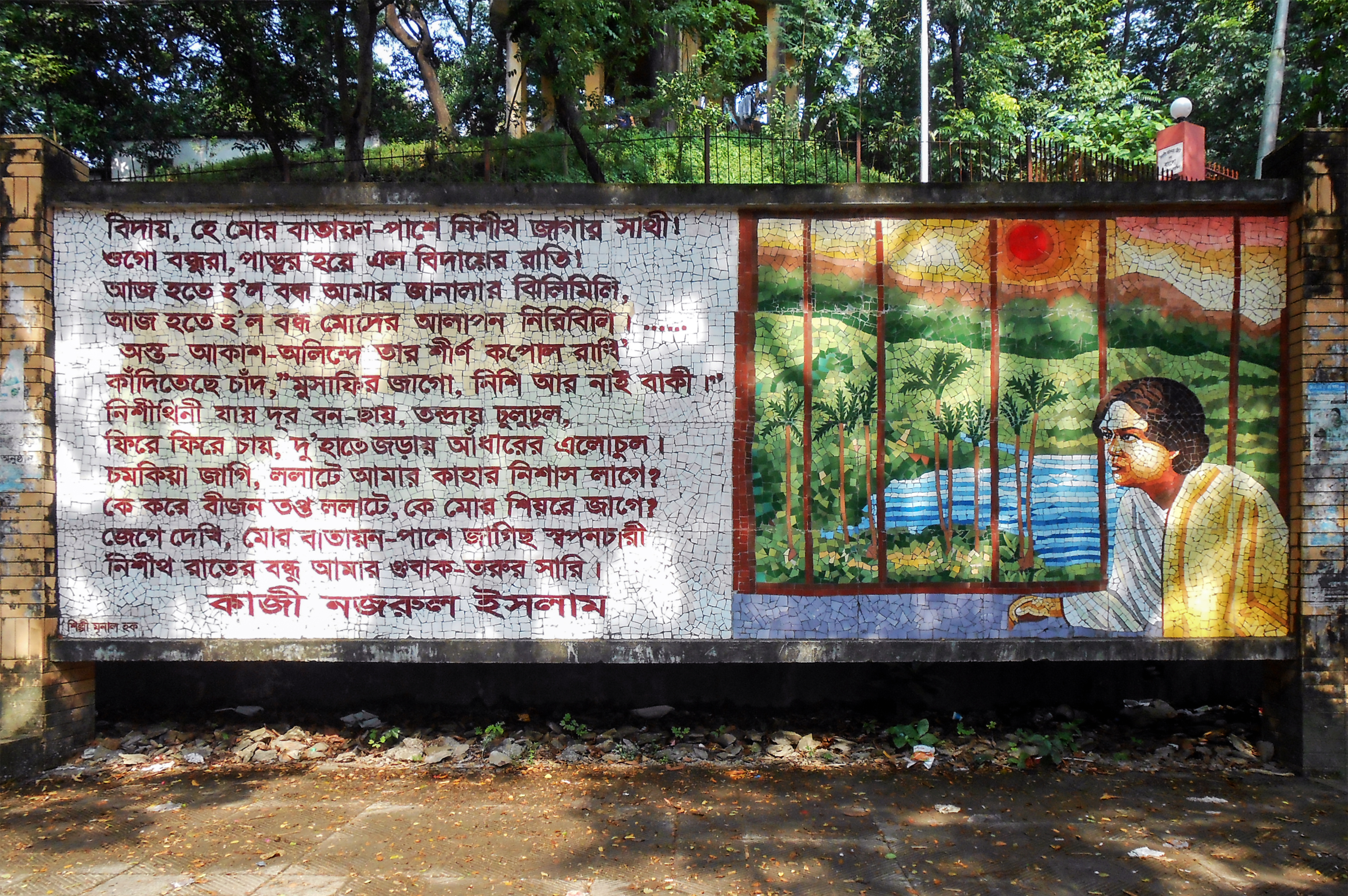 Tile mural, Nazrul Square, DC Hill, Chittagong.